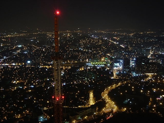 Night view of Seoul at N Seoul Tower